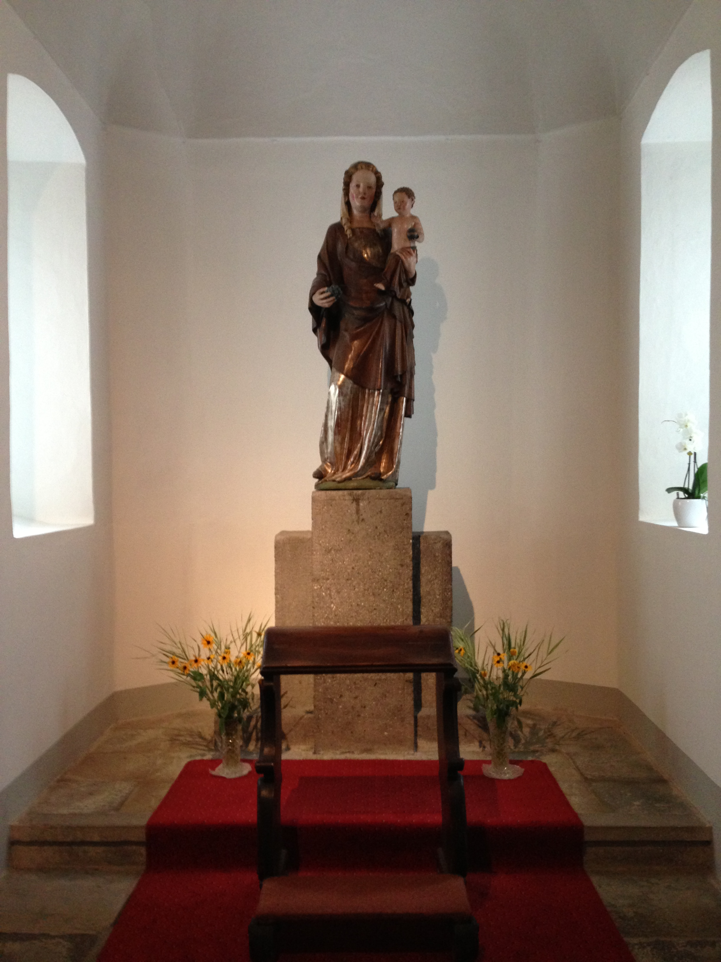 Schlierbacher Madonna, Schlierbach Abbey